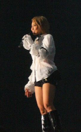 Kumi Koda performing at the Live Earth concert in Japan, 2007